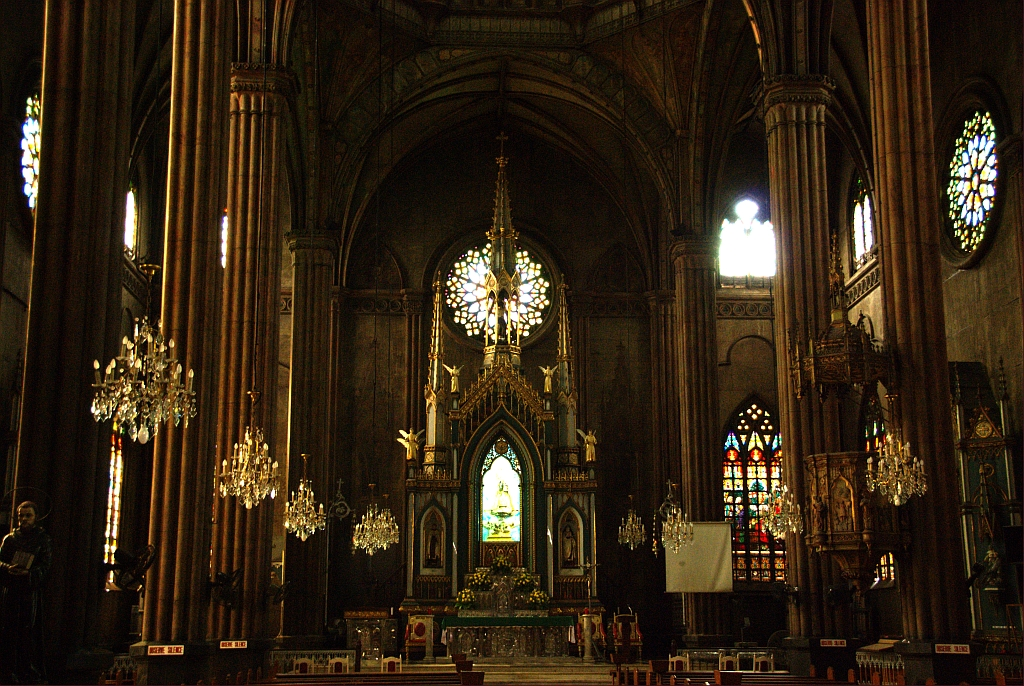 Main altar of San Sebastían Church